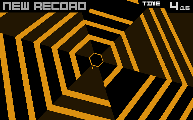 Super Hexagon PC version screenshot, depicting the Hexagoner difficulty level. Released in 2012, the game was developed by Terry Cavanagh.